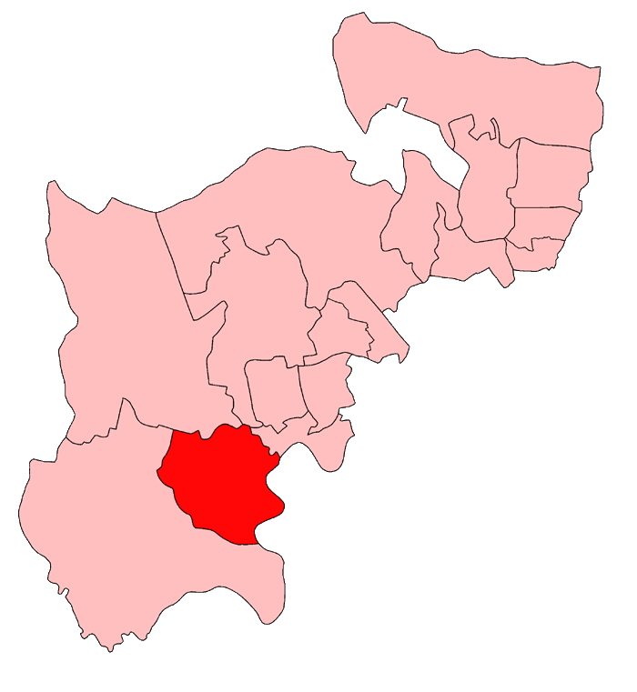 A map of Twickenham constituency within Middlesex, as it existed from 1918 to 1950.